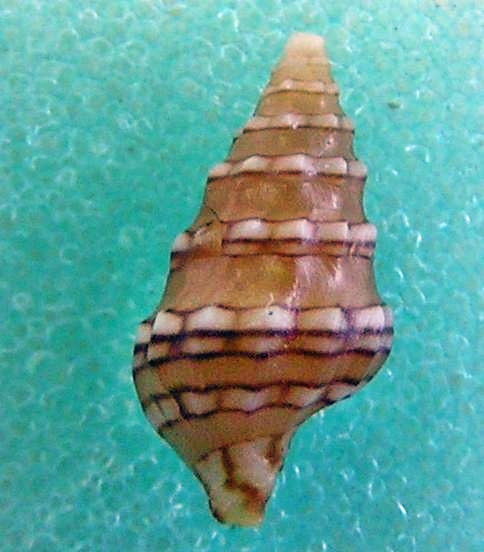 Clavus lamberti (Montrouzier, 1860) ; the Philippines